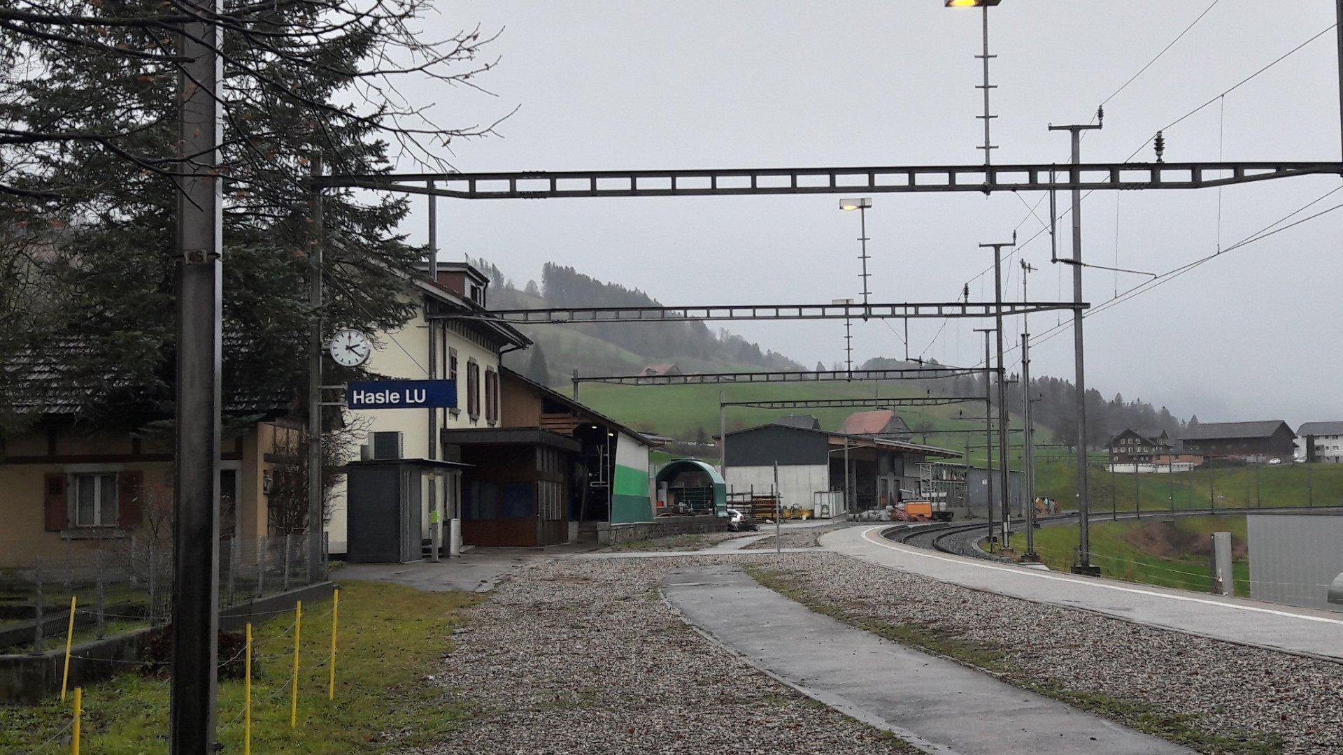 Hasle LU railway station in Template:Hasle, Lucerne, Switzerland.